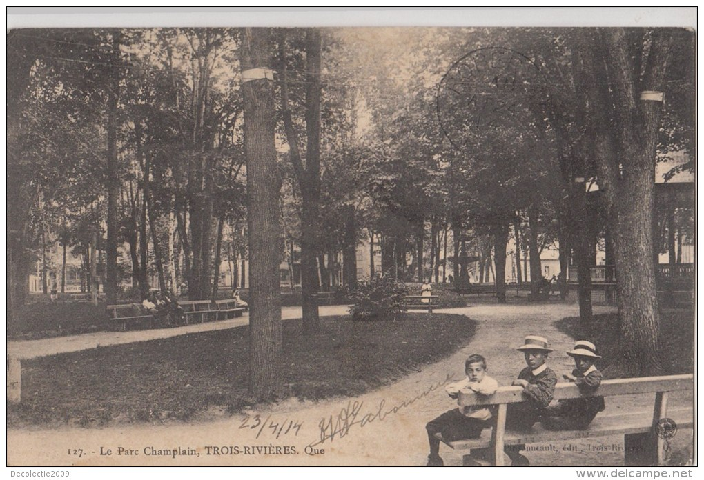 Carte postal du parc Champlain en 1914. Photographie de P.A. Pinsonneault.